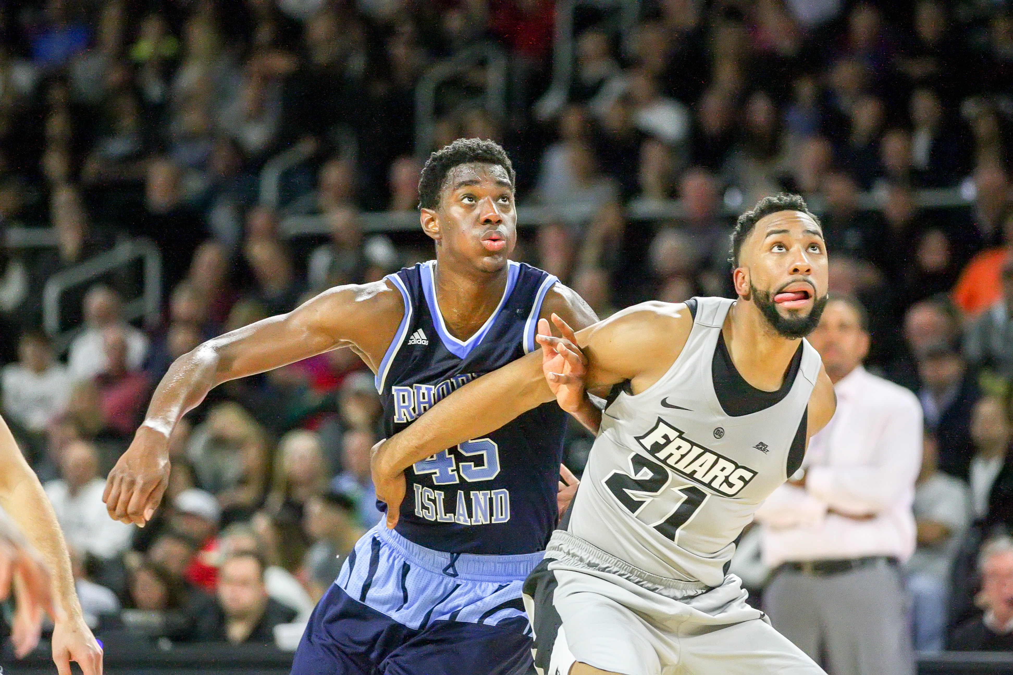 December 3, 2016. The Dunkin' Donuts Center, Providence, RI. Photo:©KJ Sports Pics